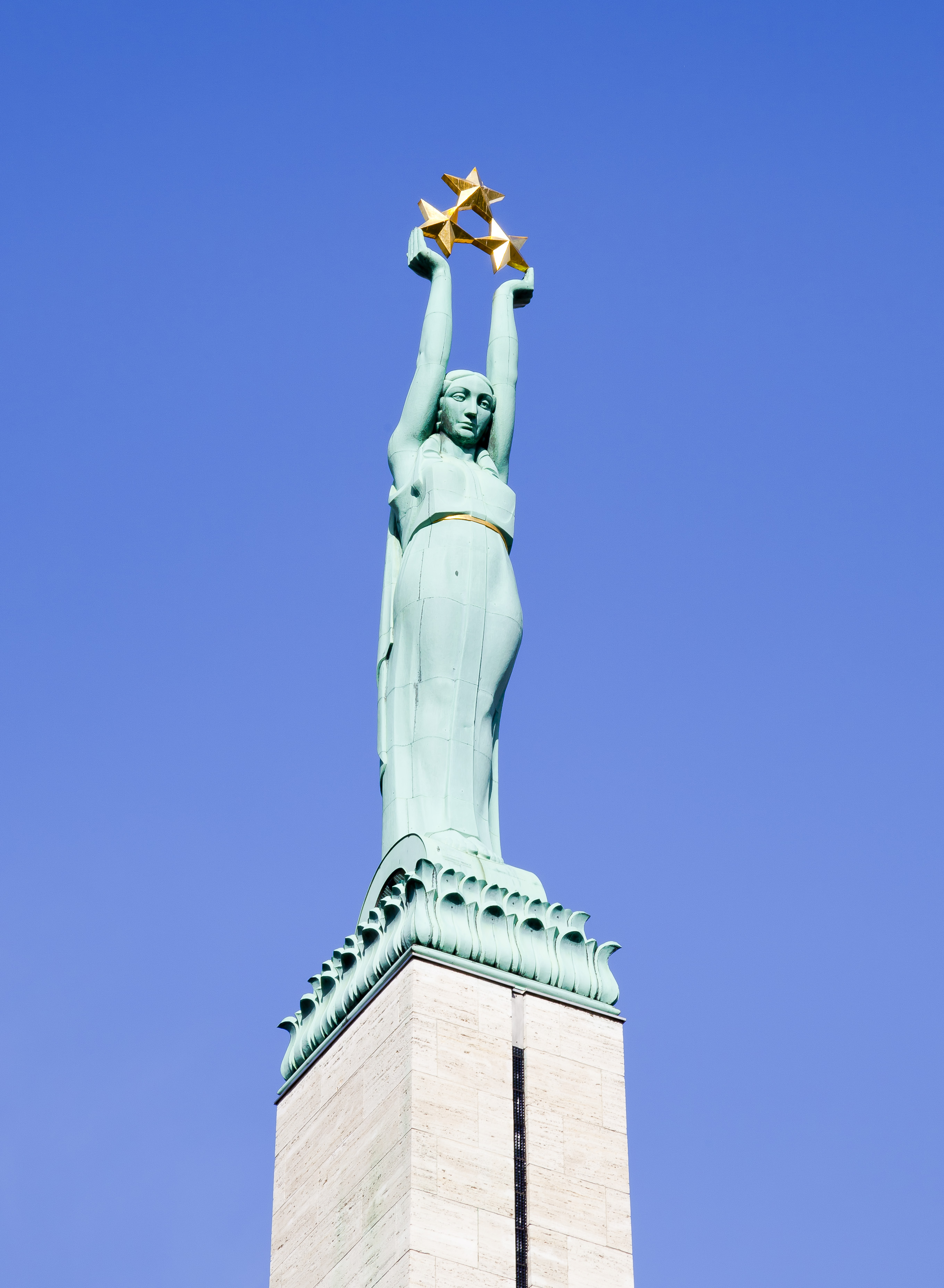 Freedom monument, Riga, Latvia